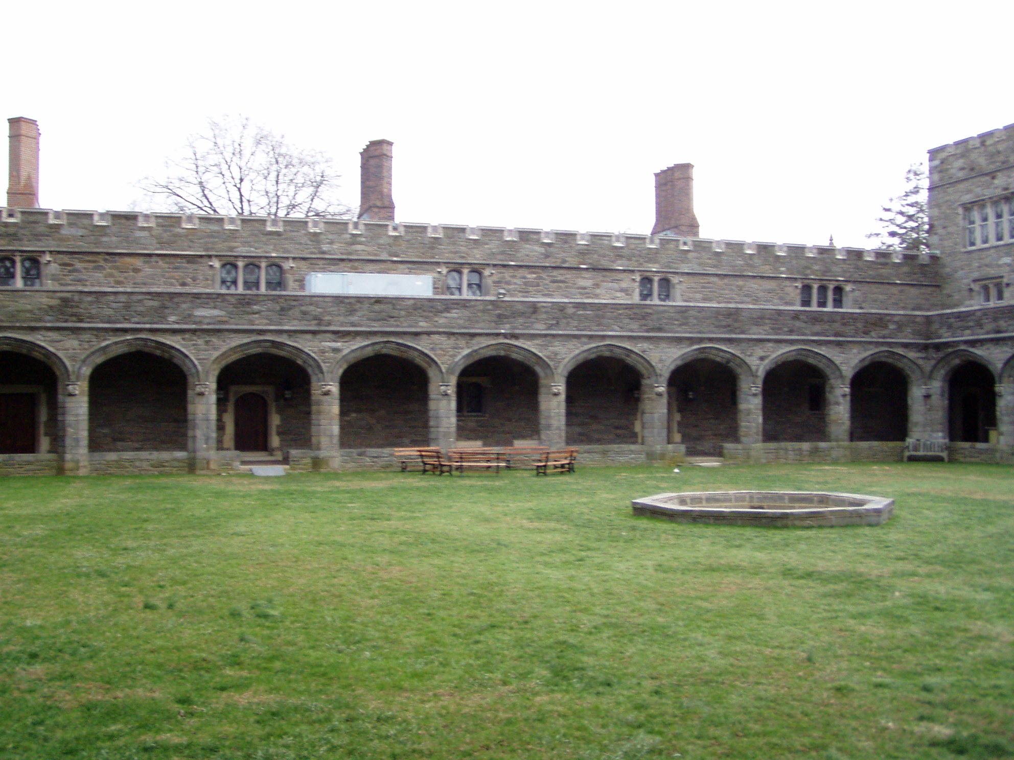 Taken in Philadelphia, Pennsylvania, in December 2005. The Cloisters, an open courtyard within the M. Carey Thomas Library at Bryn Mawr College.